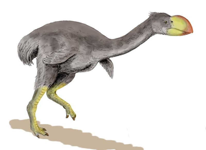 Dromornis stirtoni, a flightless bird from the Late Miocene of Australia, pencil drawing